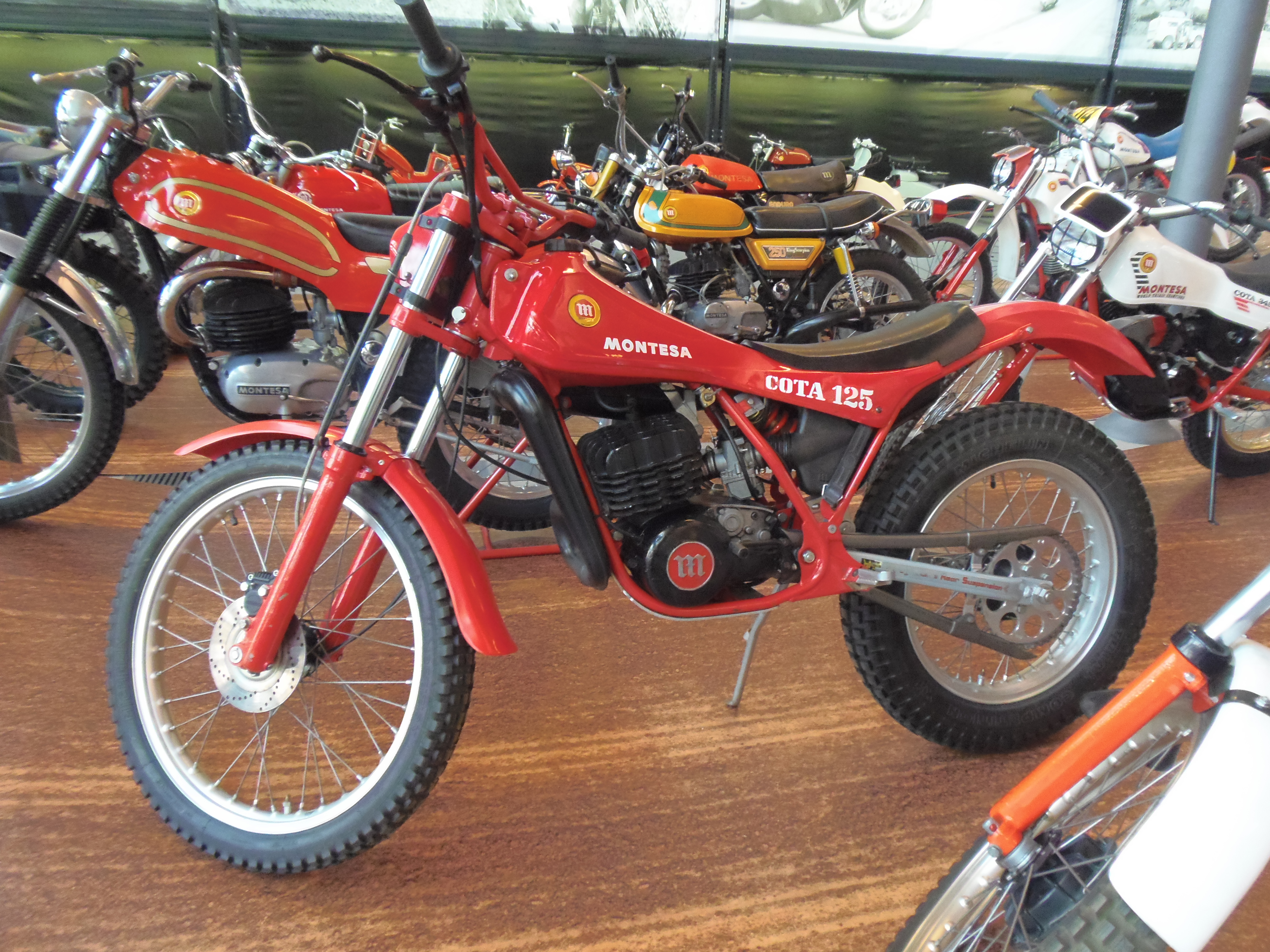 Montesa Cota 125, 1987